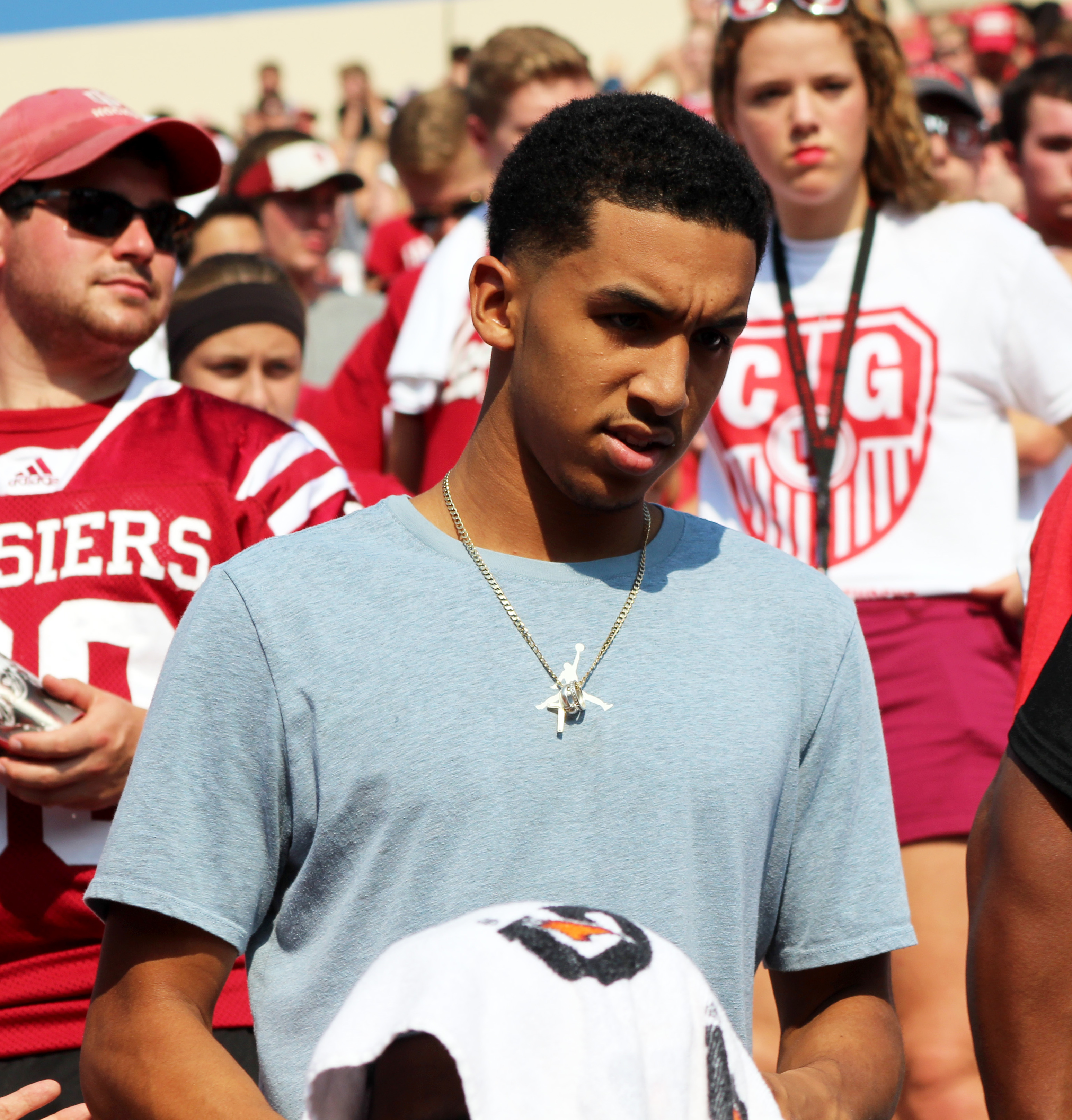 Tremont Waters on a recruiting visit to Indiana